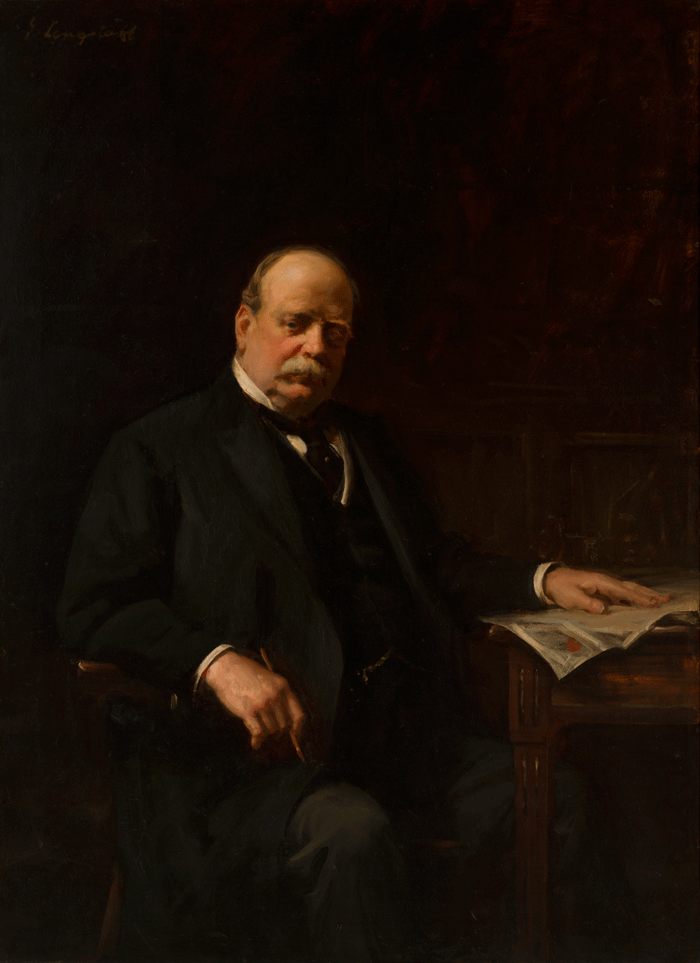 The Rt. Hon. Sir George Houstoun Reid GCB GCMG KC, Prime Minister of Australia (1904–05).